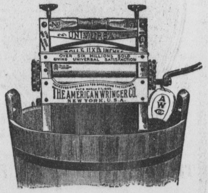 in 1903, the Henry Mohr Hardware Company of Tacoma, Washington was selling clothes wringers of this model for $1.50.